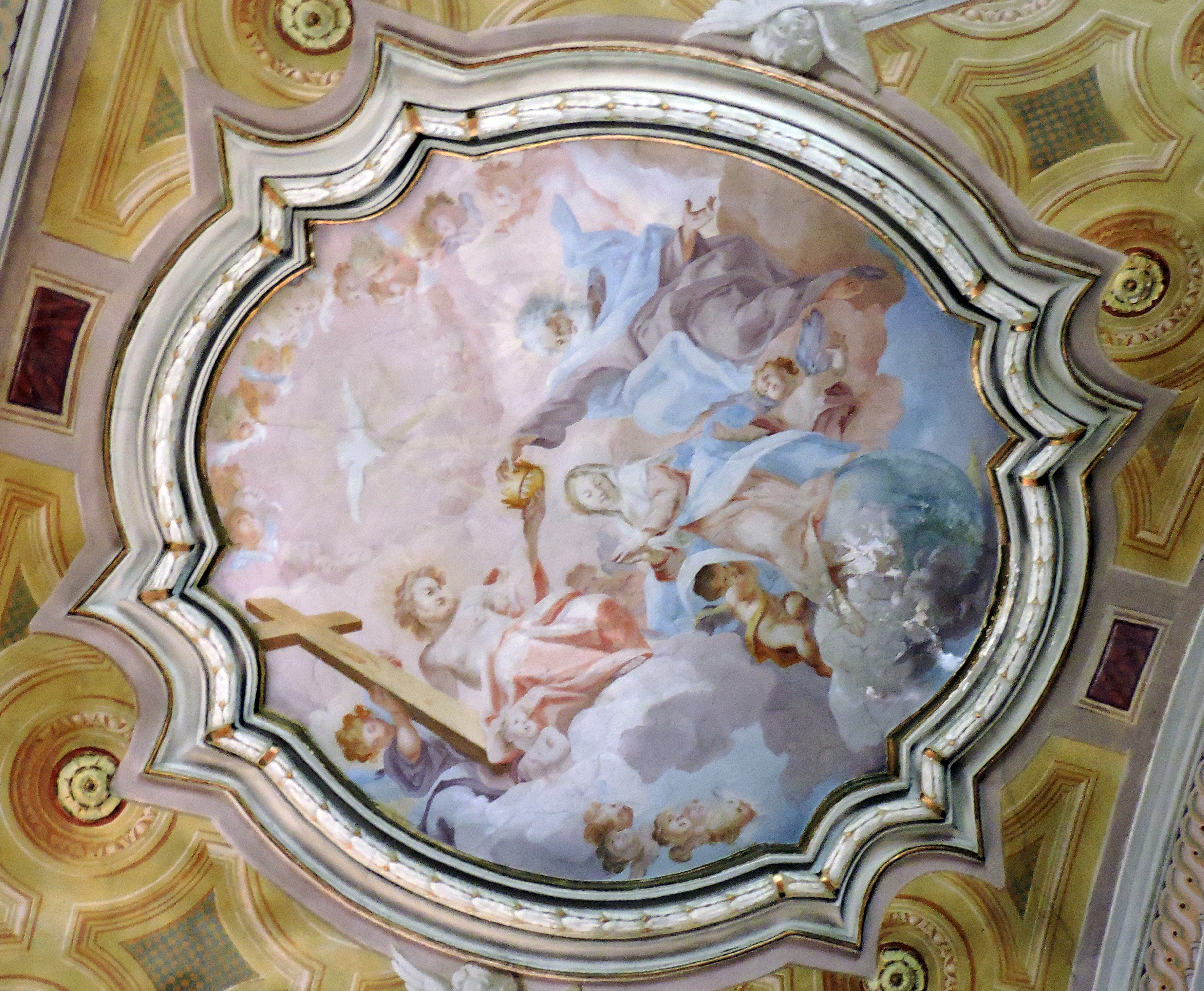 Santuario della Madonna della Ceriola (monte Isola, BS, Italy): frescoed vault